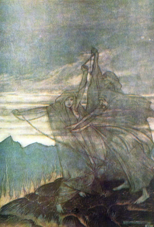 The Norns vanish